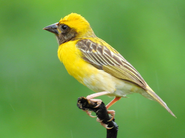 Baya Weaver Ploceus philippinus, male ♂ in breeding plumage, Mangaon, Maharashtra, India.